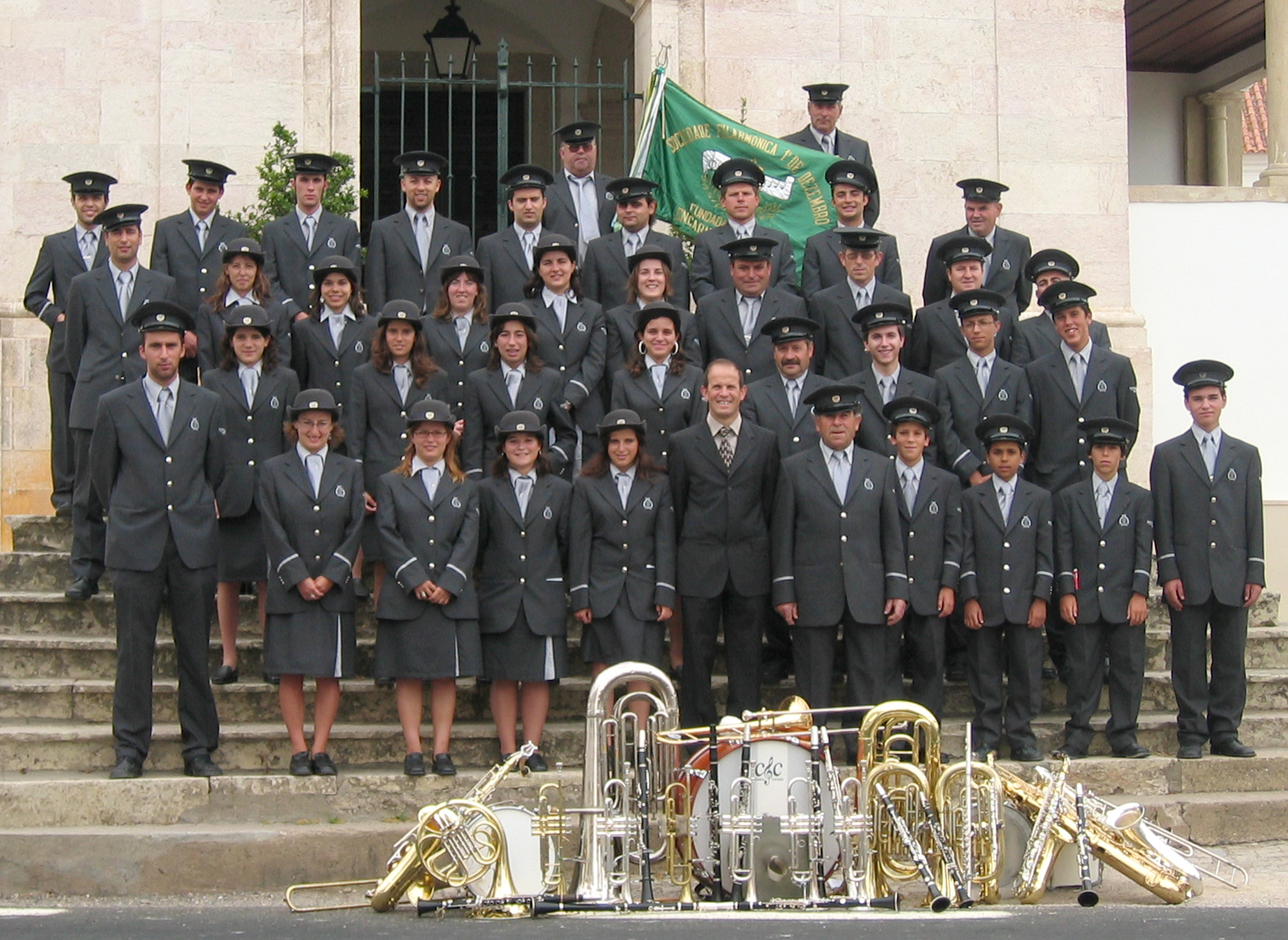 Photo of the Orchestra in 2005.